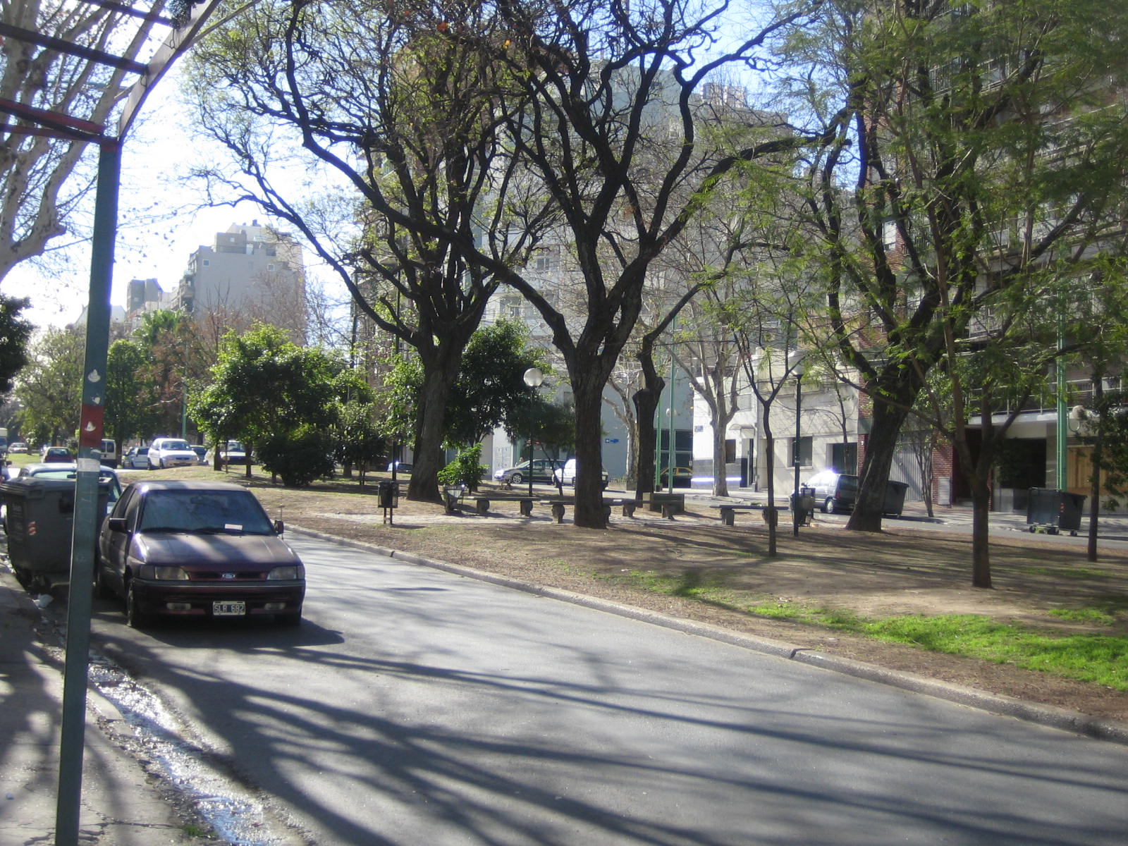 San Isidro Ave. - Buenos Aires - Argentina